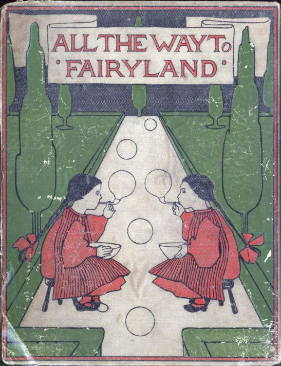 Book cover of All the Way to Fairyland